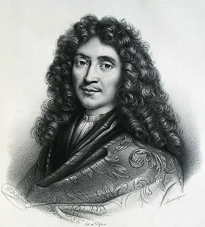 Molière (1622-1673)